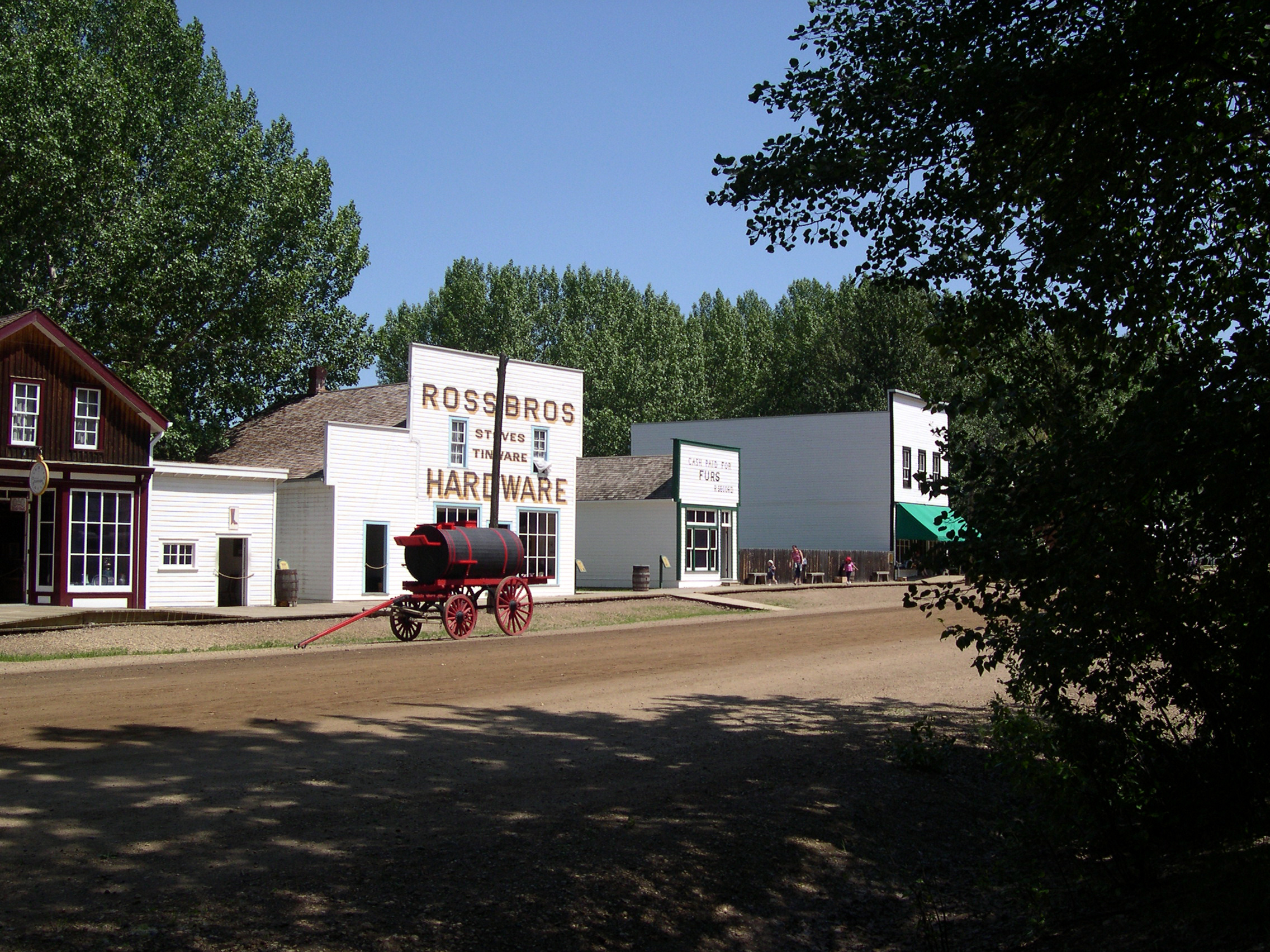 1900's re-creation